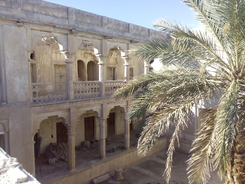 Kazem Historic House in Bastak City, Hormozgan Province, Iran